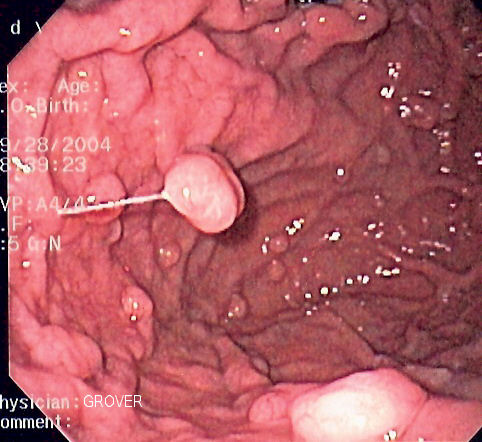 Endoscopic image of fundic gland polyposis, likely secondary to chronic PPI use. Permission to release image into public domain obtained from patient. -- Samir धर्म 04:17, 17 May 2006 (UTC) Category:Endoscopic images Summary Endoscopic image of fundic gland polyposis taken on retroflexion of gastroscope. This patient was chronically taking proton pump inhibitors.